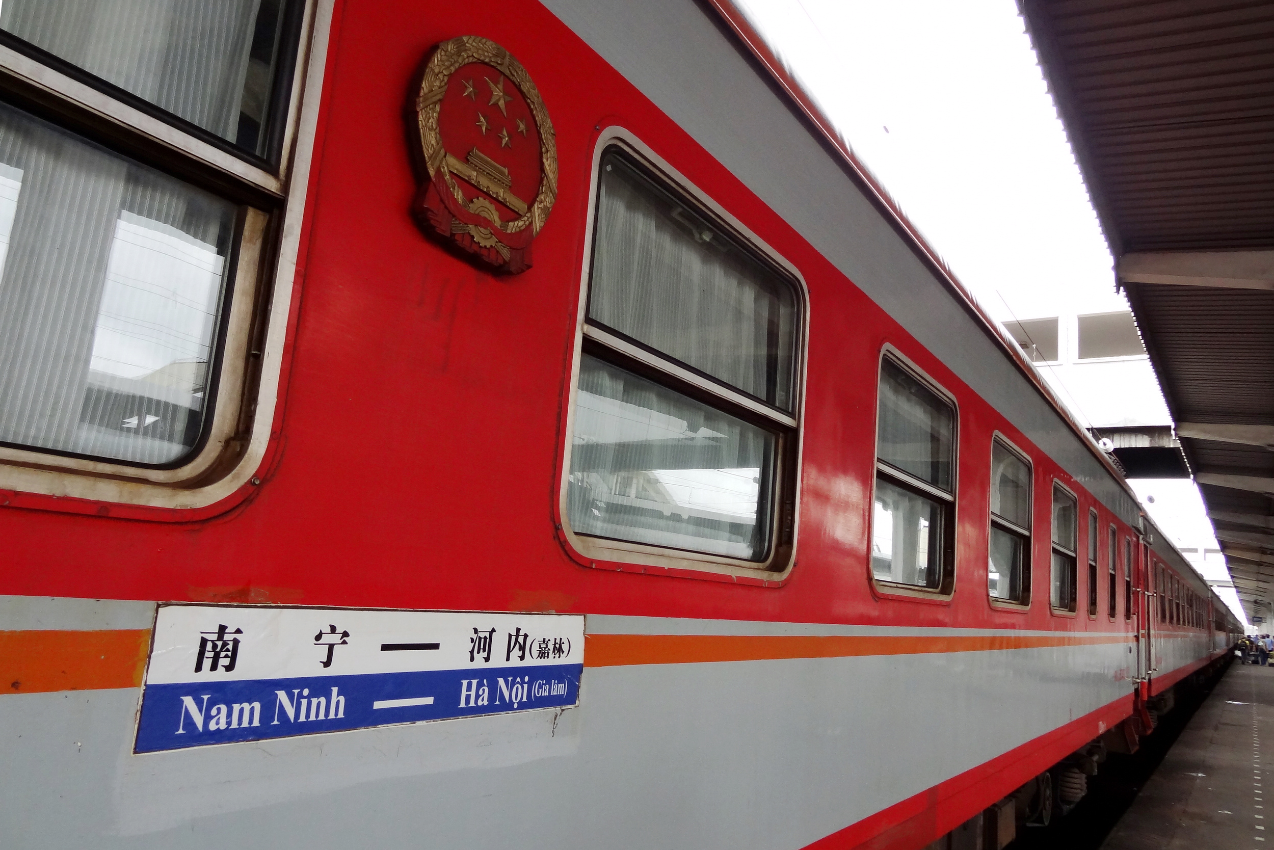 Nanning-Hanoi International Train in Nanning Railway Station, China.